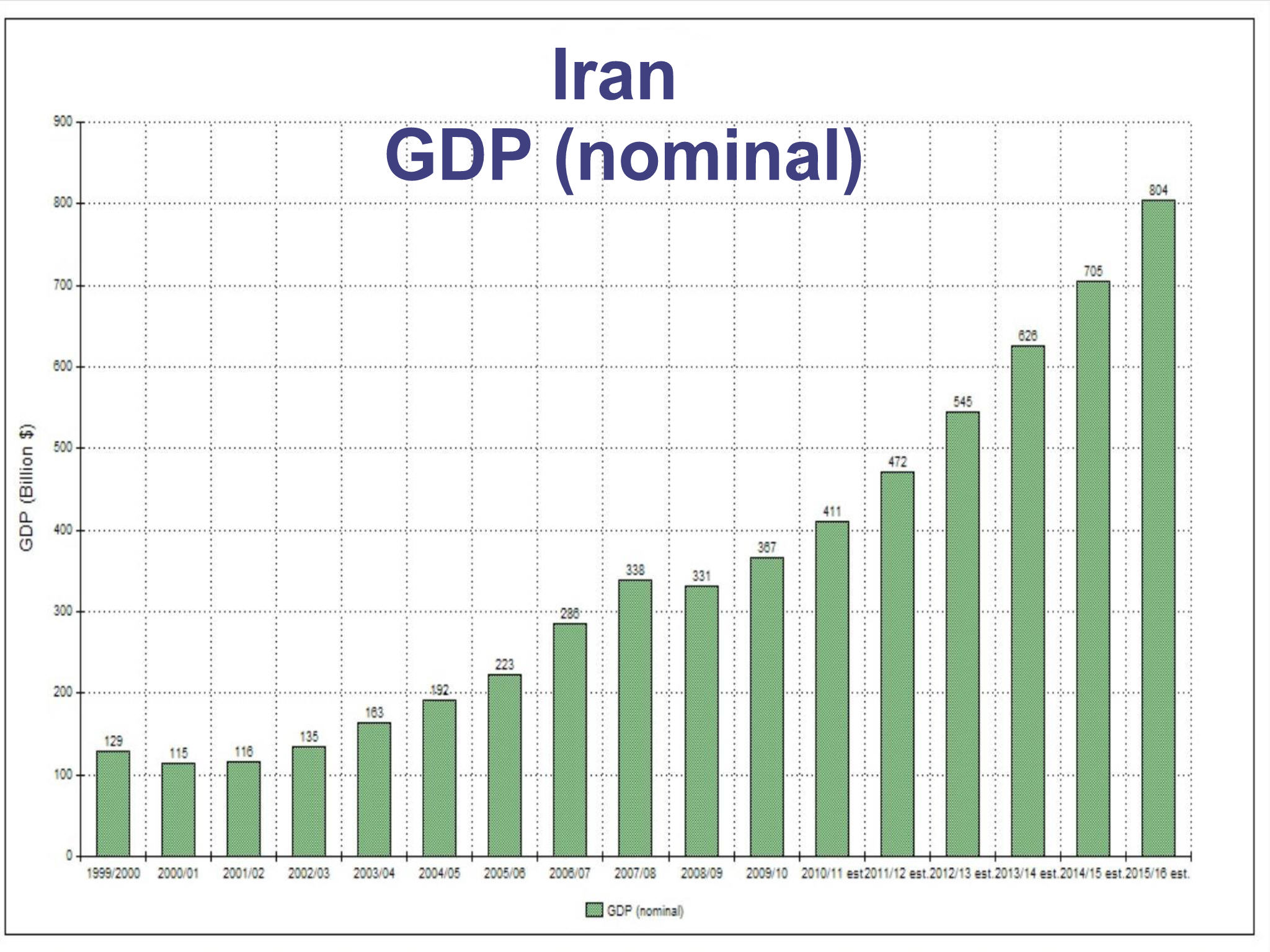 Iran's GDP (nominal, billion $, projections). Source for raw data: World Bank (1999-2008) & the Economist (2009-2015)